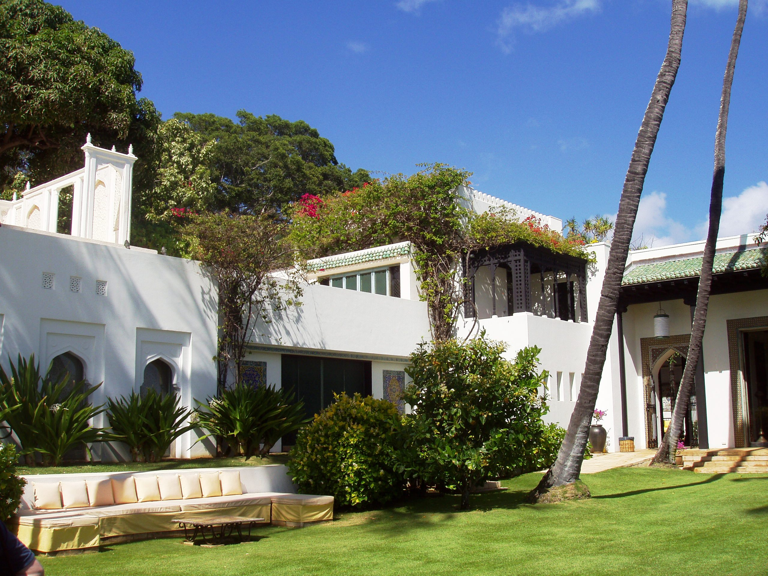 Islamic-style Shangri La house and gardens, outside Honolulu, Hawaii - exterior view.